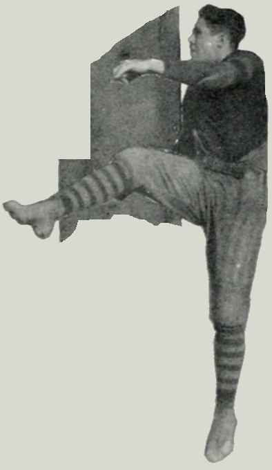 Cropped picture from Vanderbilt's yearbook of quarterback Frank Godchaux circa 1921